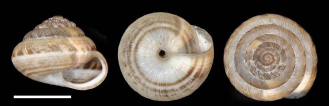 Composition of the 3 main views of the shell of Xeroplexa olisippensis. Locality: Boliquieme. Faro (Portugal).